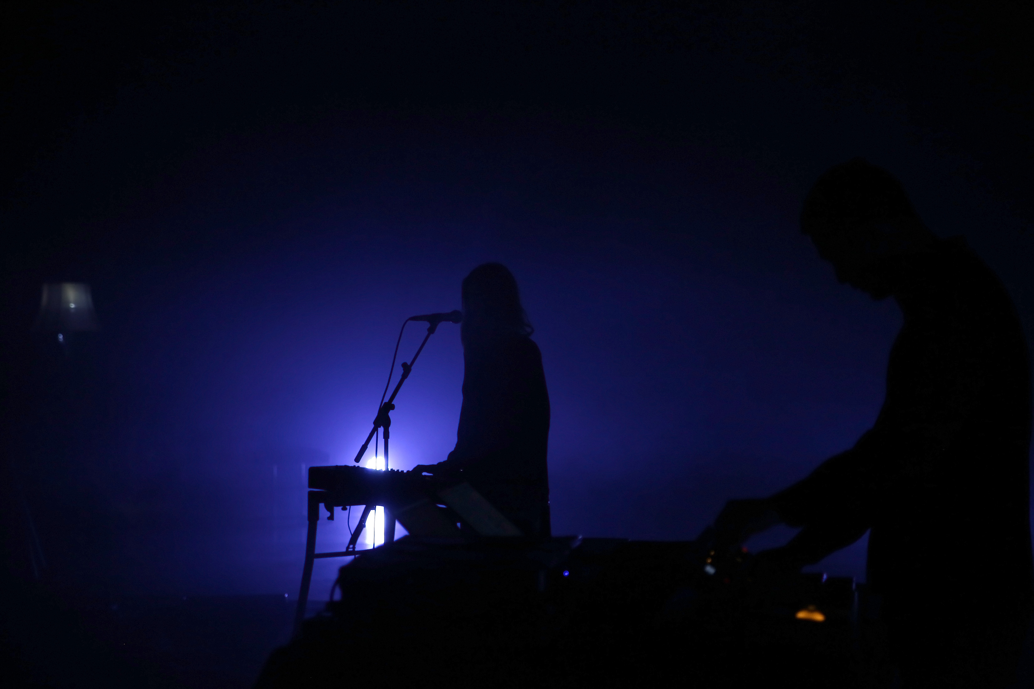 Dillon - concert at Odeon during Waves Vienna Music Festival & Conference 2012 in Vienna, Austria.